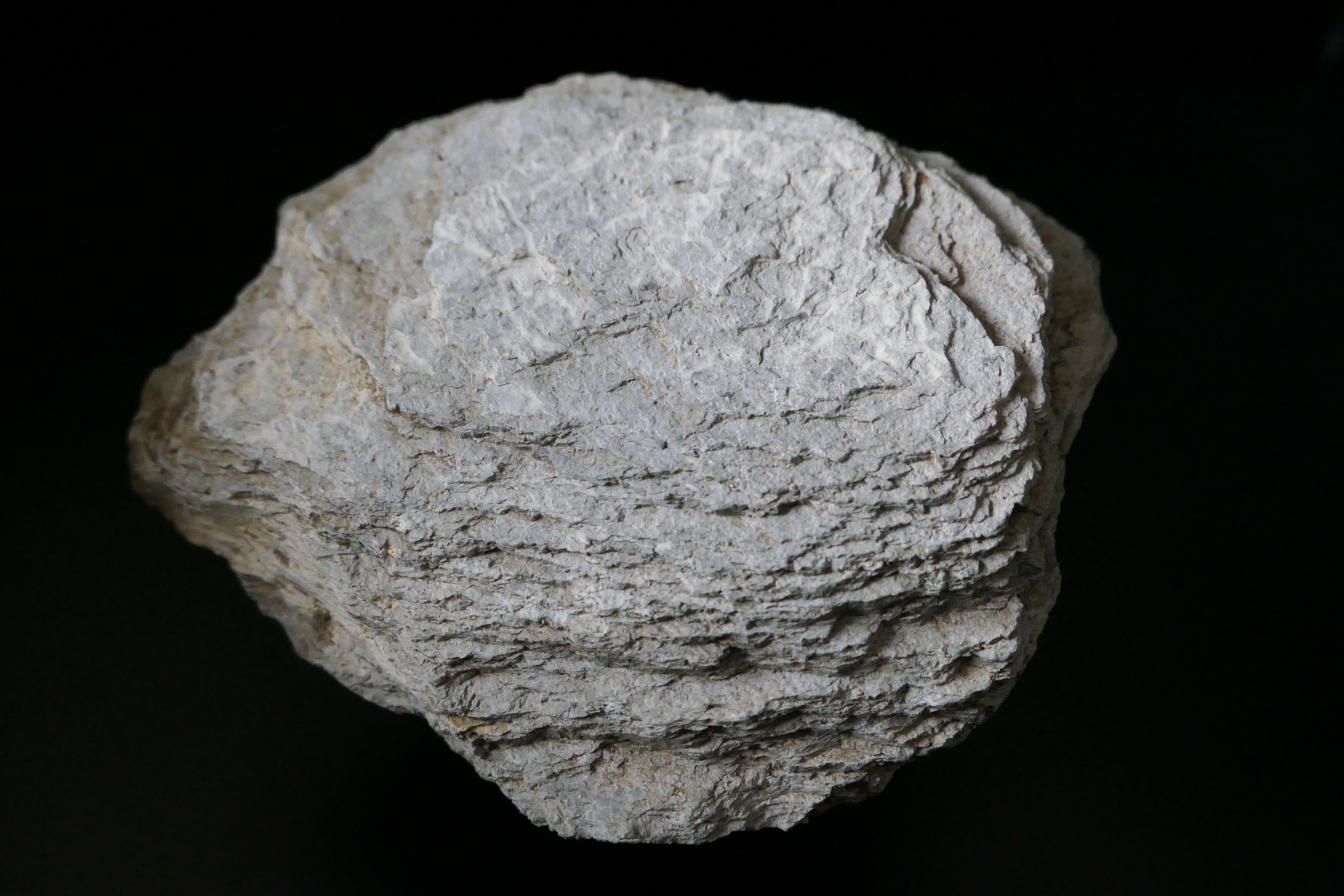 subparallel shock fractures